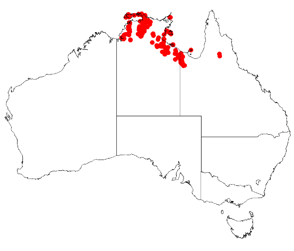 Boronia lanceolata Occurrence data from Australasian Virtual Herbarium downloaded 8 April 2019 using DOI